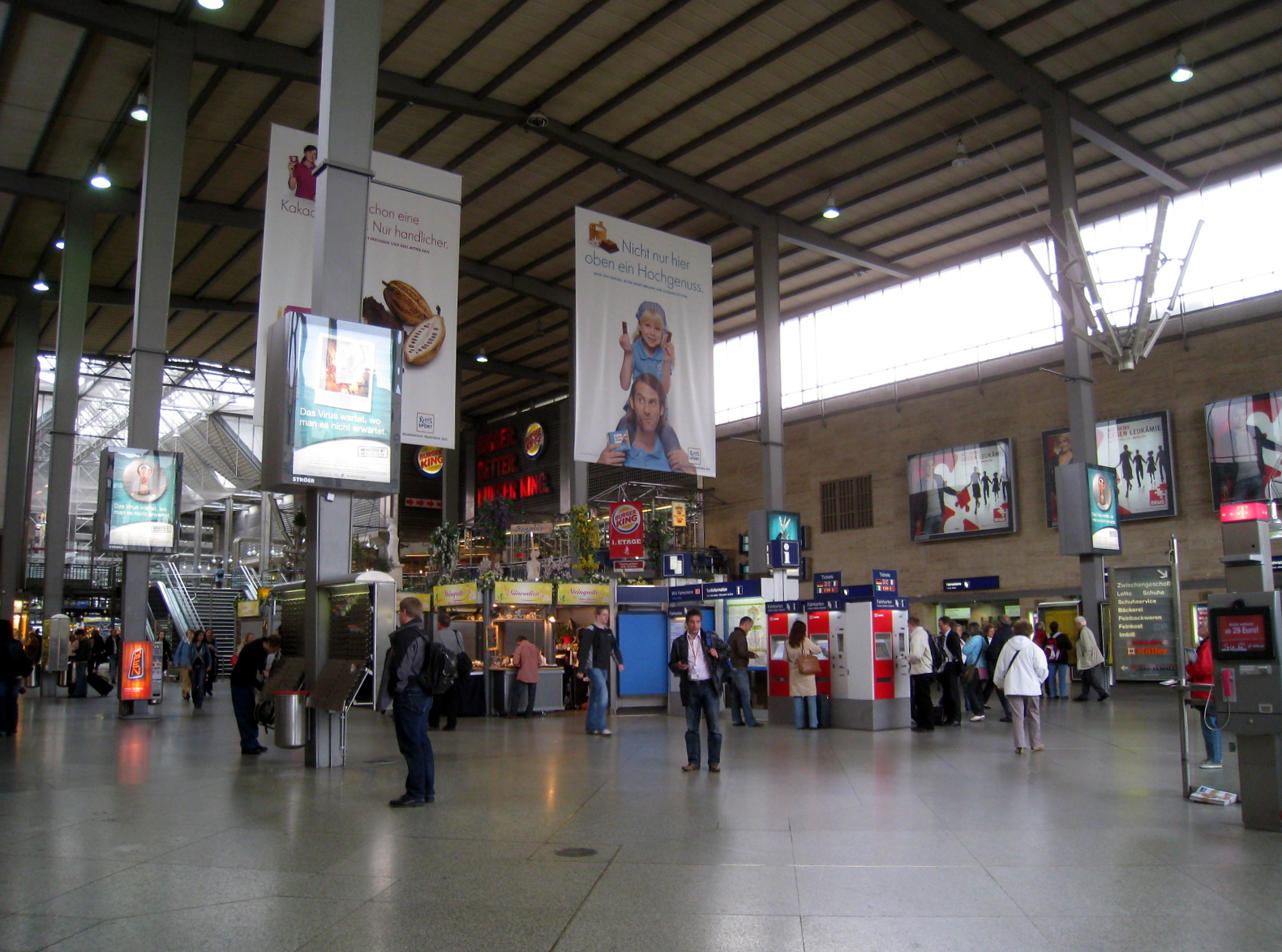 Munich Central Station Concourse